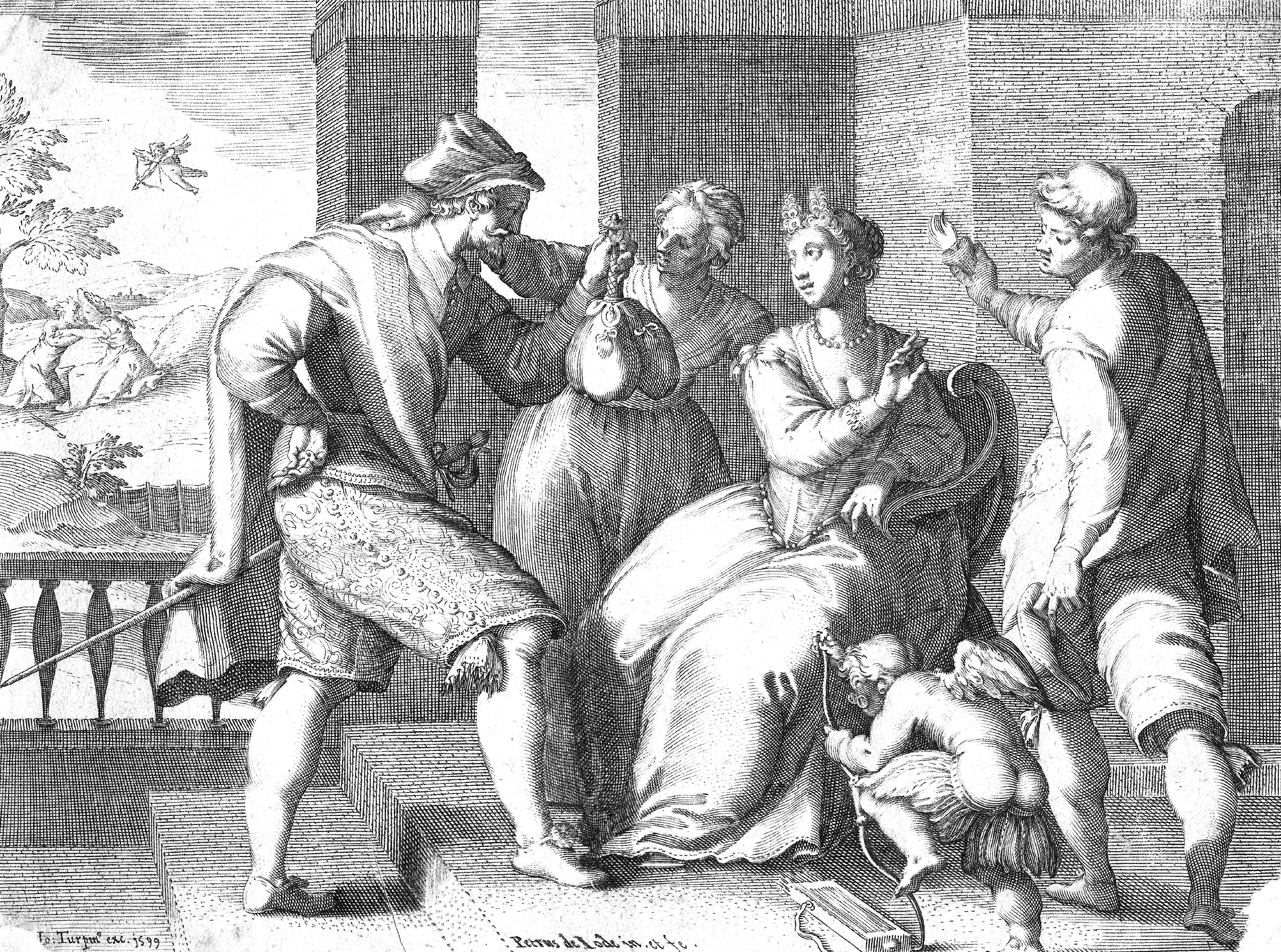 Courtship